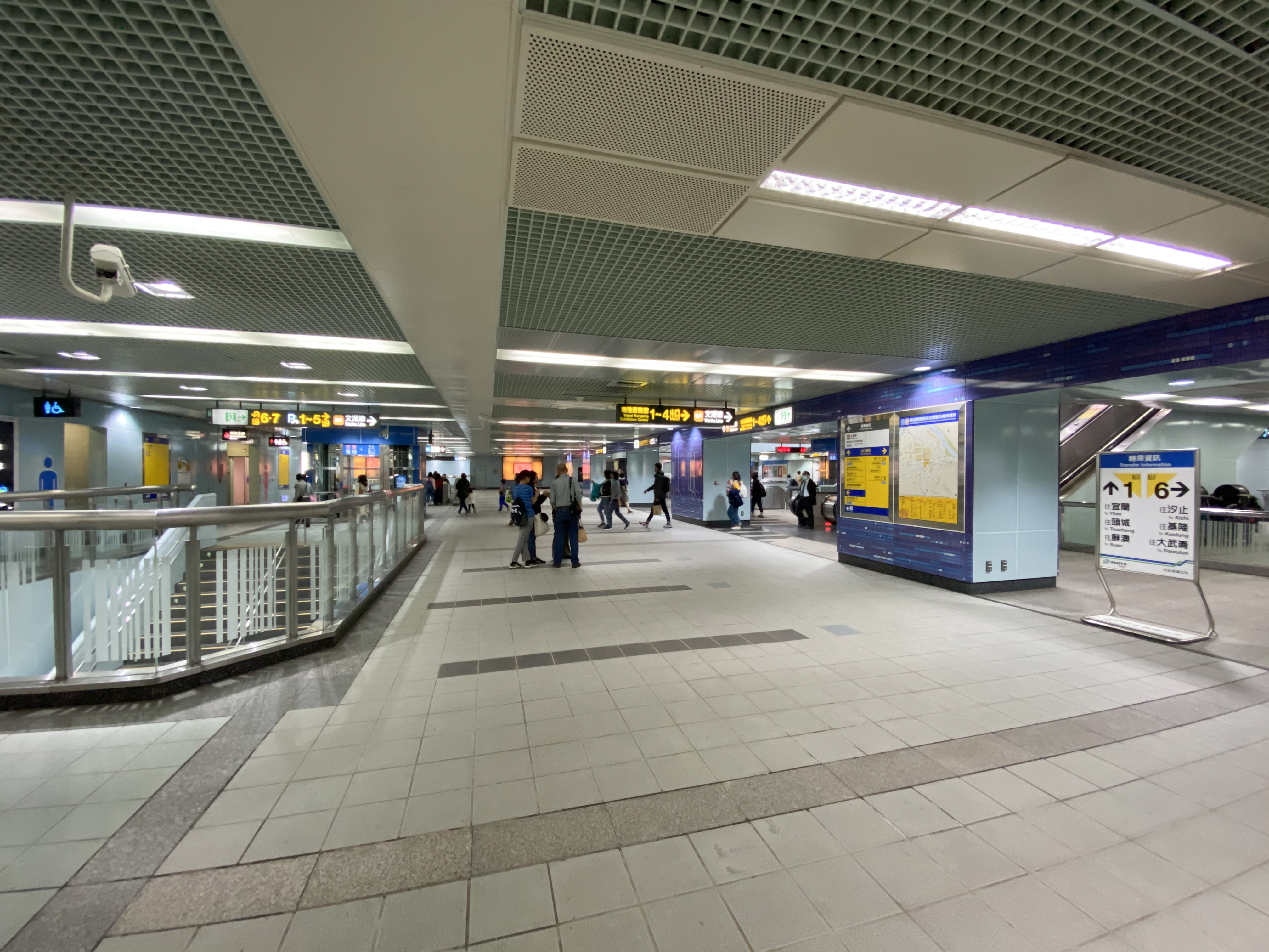 Nangang Exhibition Center Station Concourse